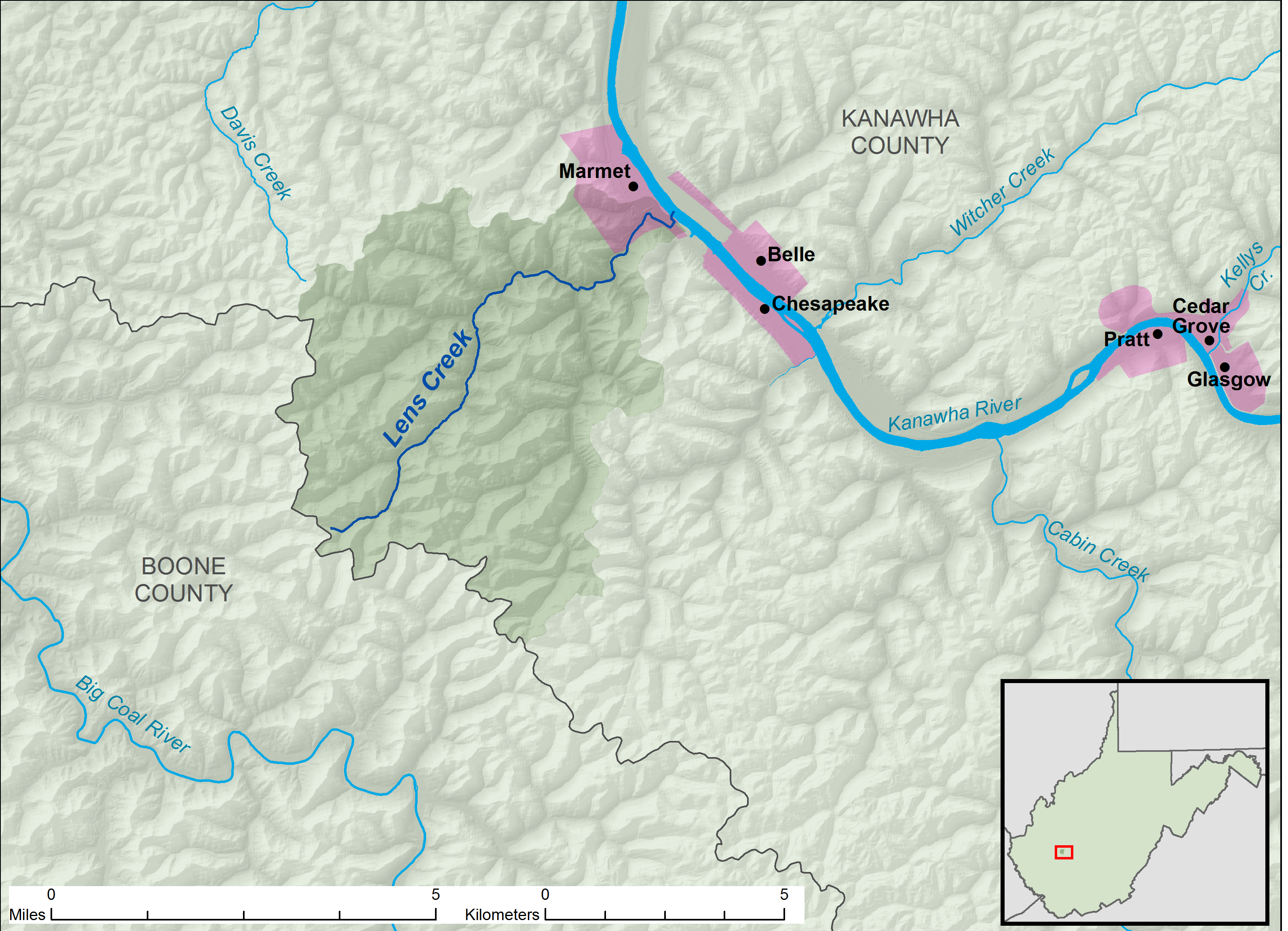 A map of Lens Creek and its watershed (USGS HUC-12 code 050500060402), in Kanawha County, West Virginia.